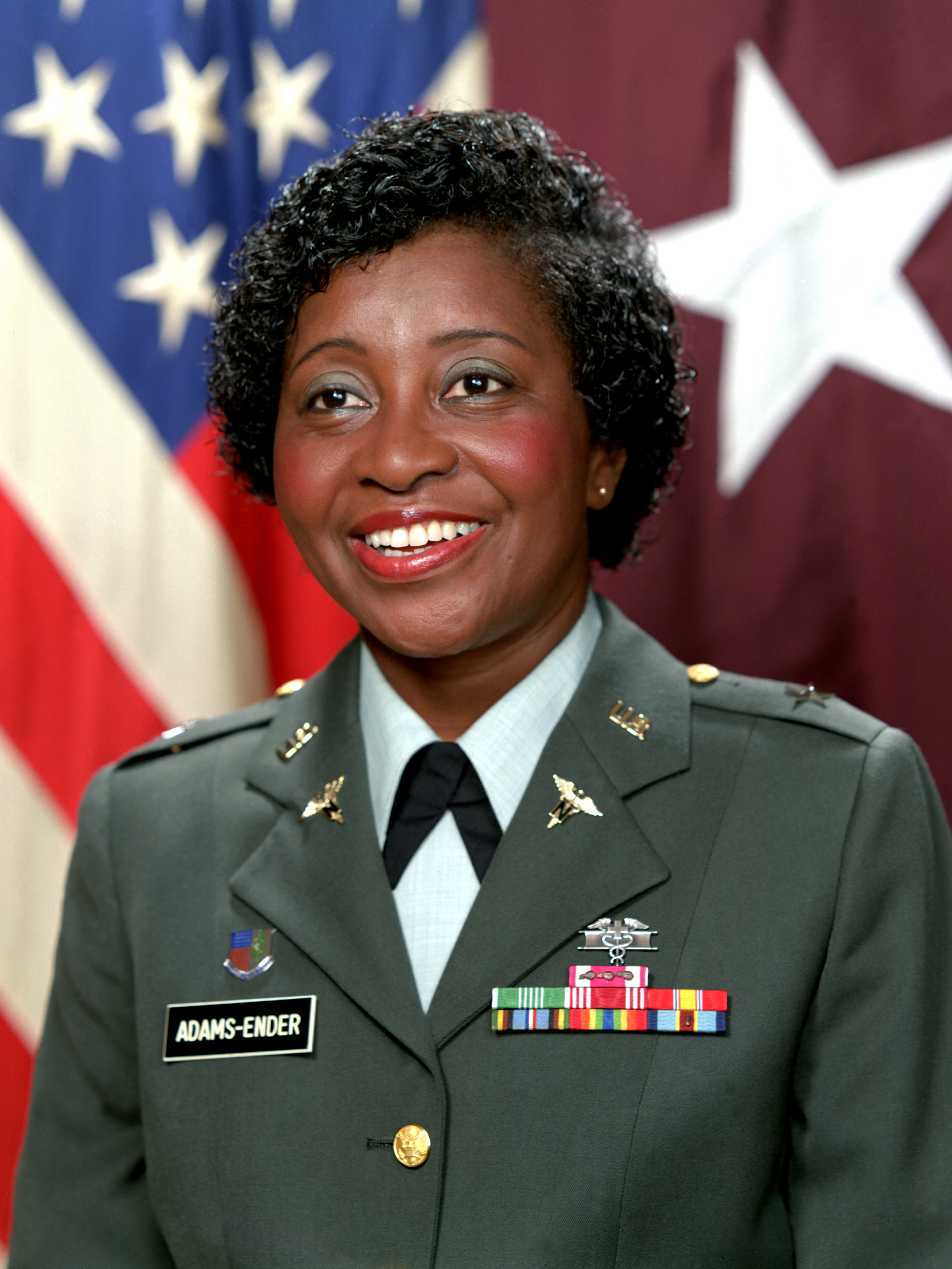 Brig. Gen. Clara L. Adams-Ender